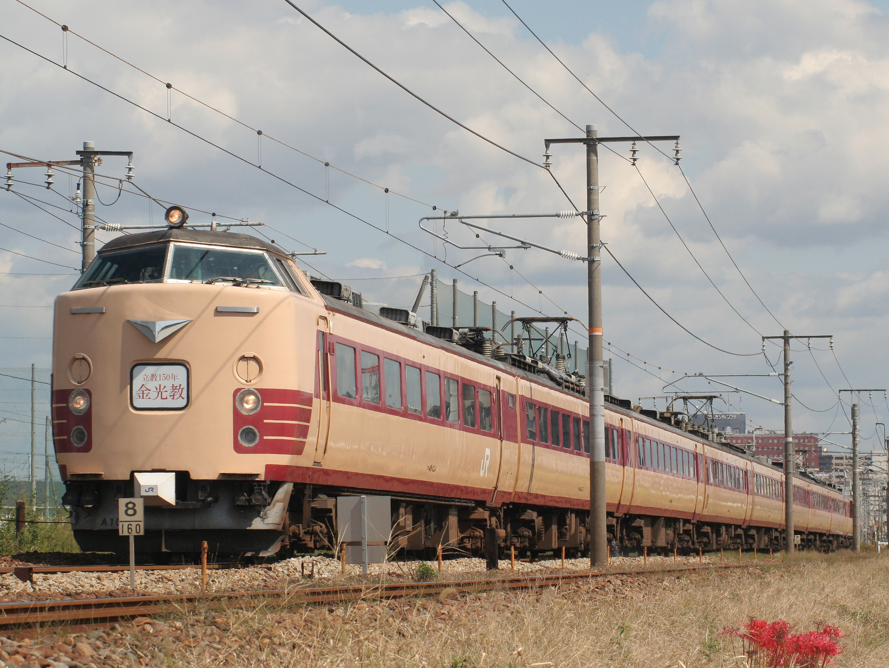 West Japan Railway 485 series train Konko extra train